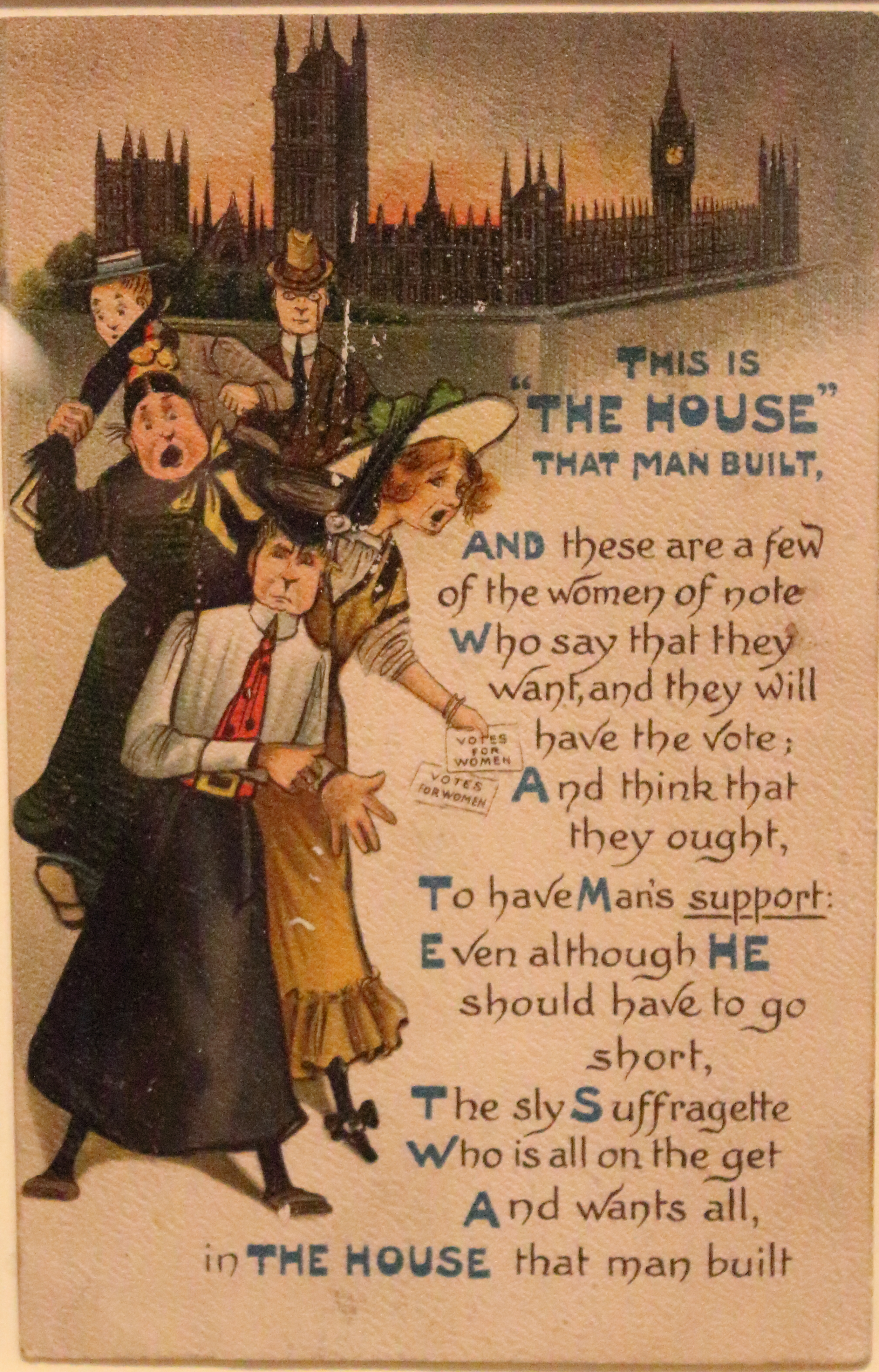 Anti Suffrage Postcards c.1908